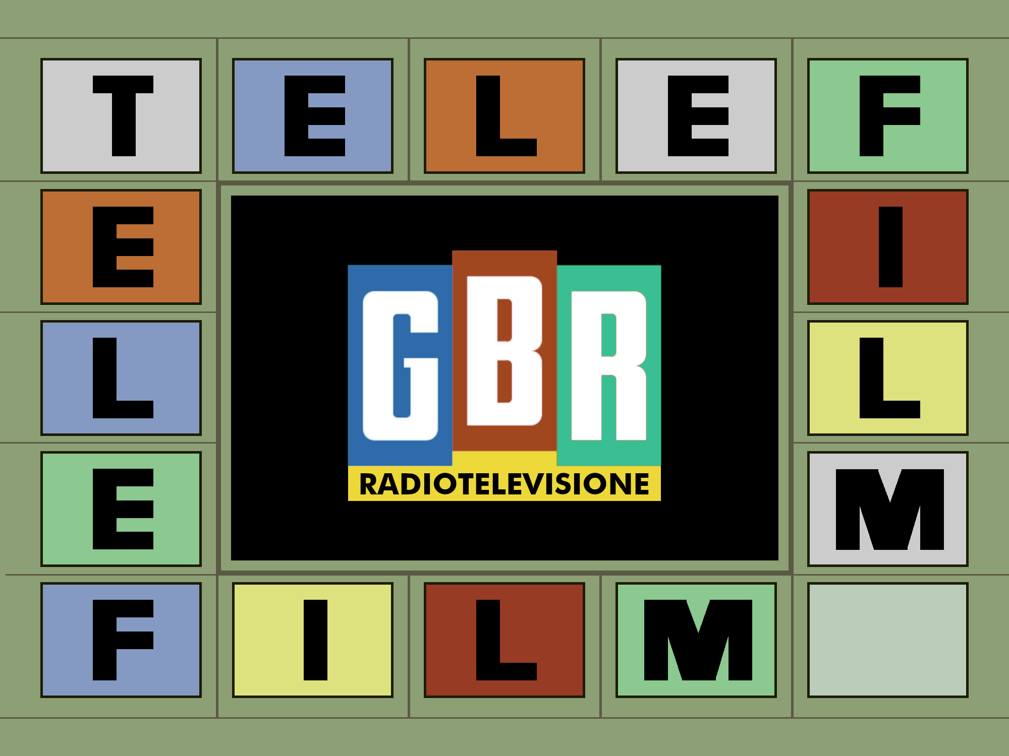 1976 TV bumper of GBR, an Italian private broadcaster active in Rome 1976-1996. Redrawn from an original screenshot of the bumper